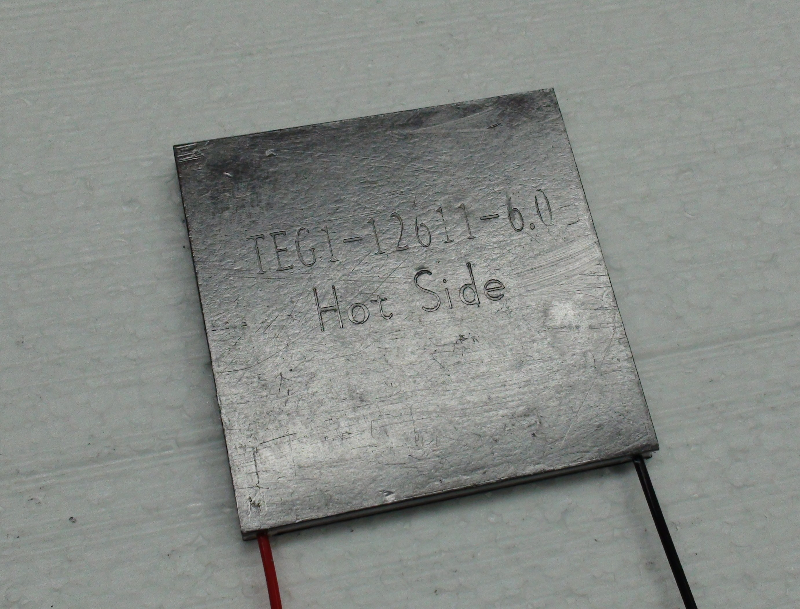 Picture of a Thermoelectric Seebeck module (Thermoelectric generator), apparently manufactured by TECTEG MFR..